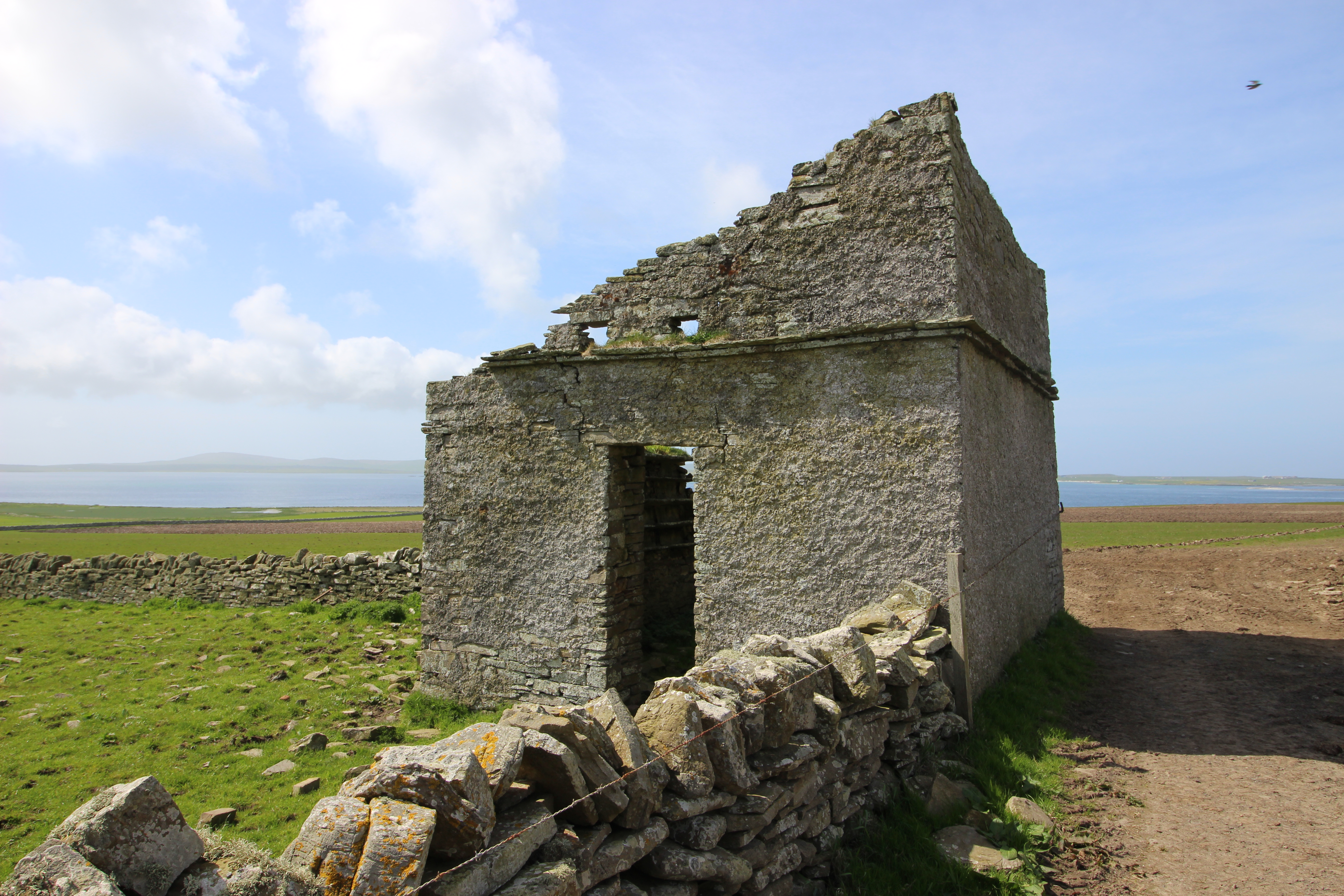 Papa Westray, Holland Farm, Dovecot Wikidata has entry Q17828046 with data related to this item.